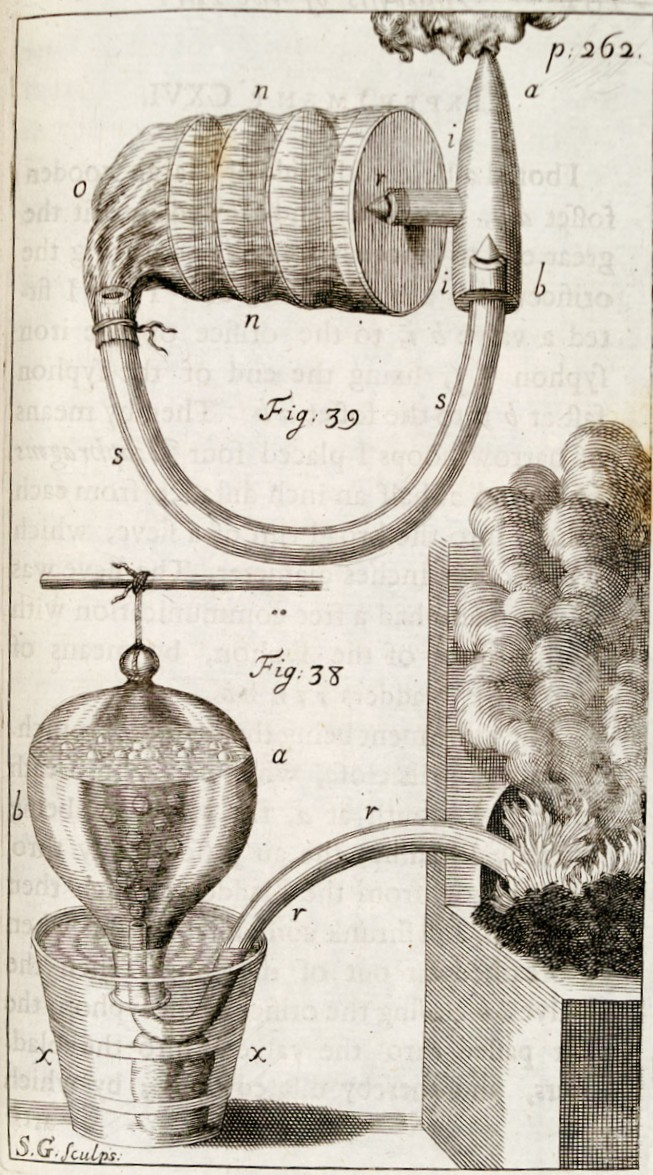 Scan from an old book, showing a pneumatic trough